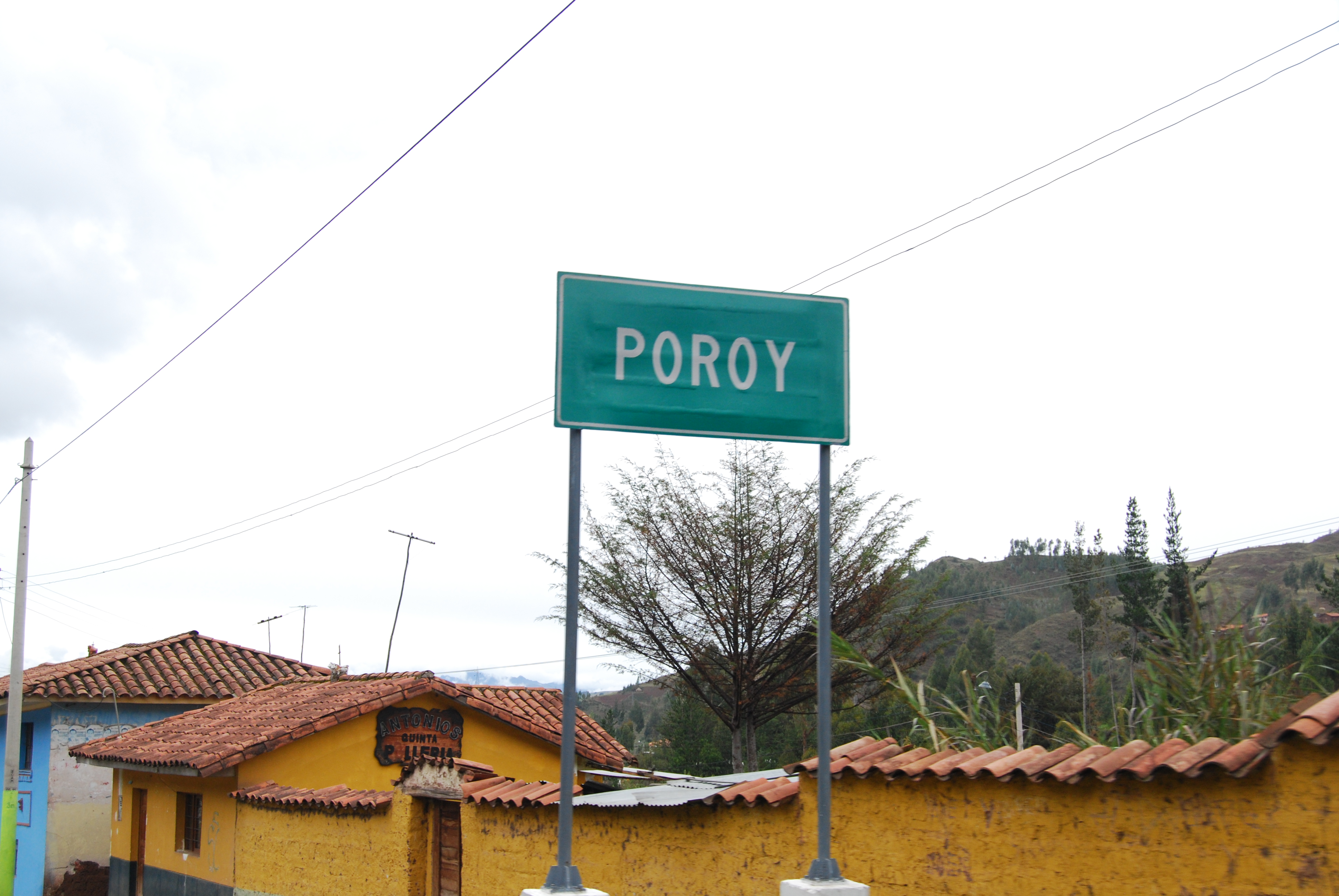 An town sign in Poroy District of Cusco, Peru